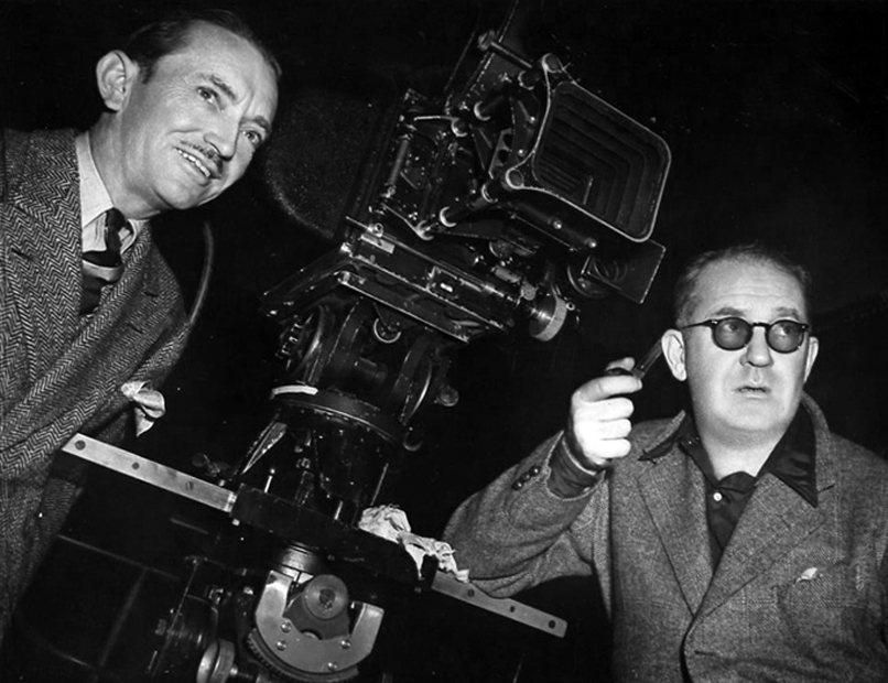 Bert Glennon (cinematographer, left) & John Ford (director) on the set of Stagecoach - publicity still